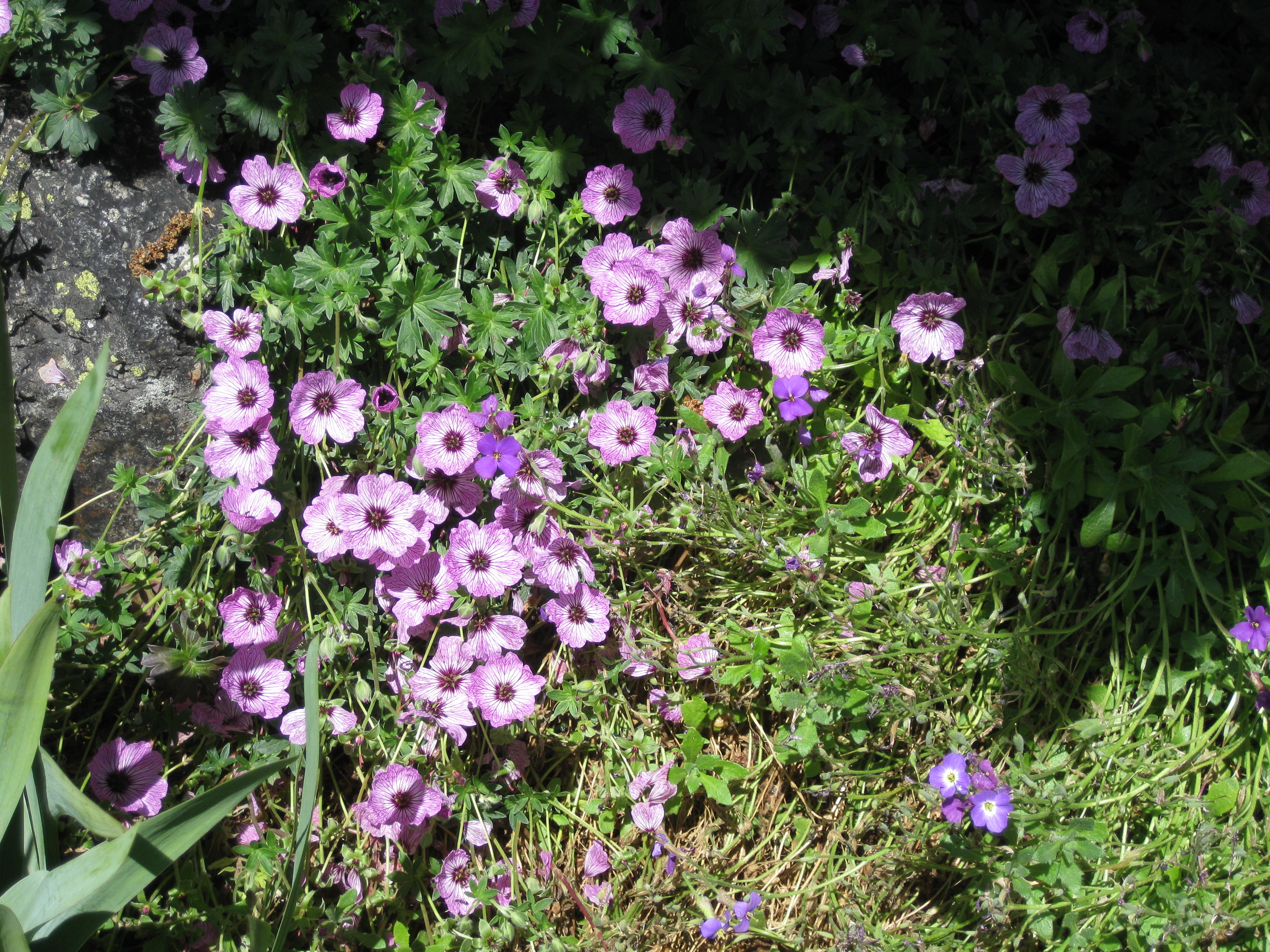 Geranium cinereum in the Jardin Botanique Alpin du Lautaret